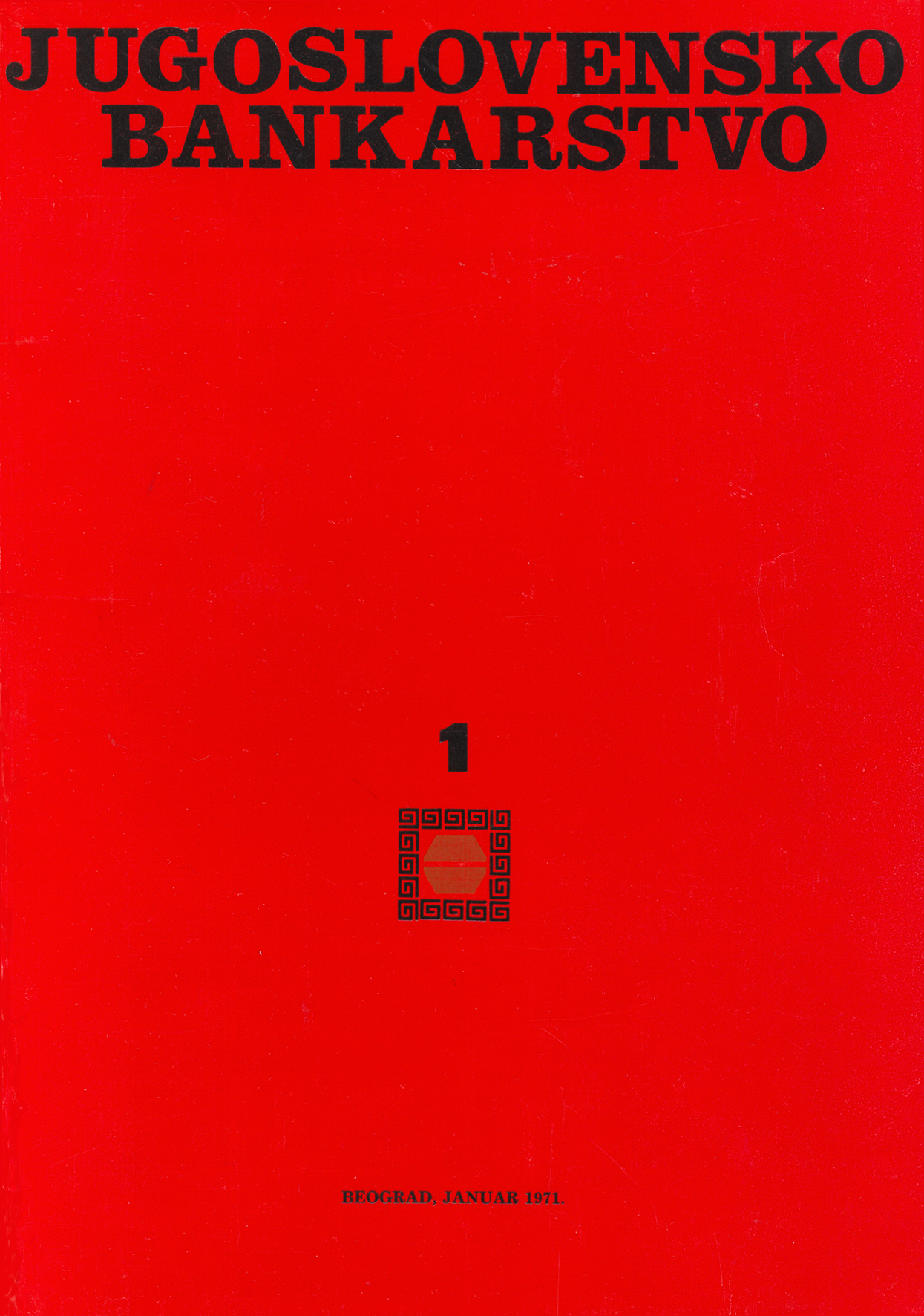 Journal Bankarstvo, Association of Serbian Banks, First number, 1971, Serbia